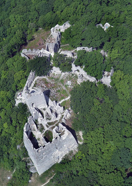 Tematín Castle, Slovakia, aerial photography